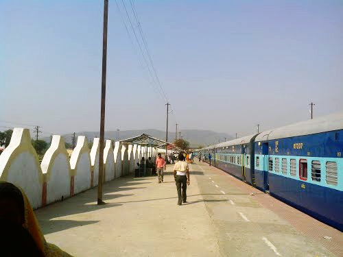 Railway of Rajgir station, Rajgir, Bihar, India